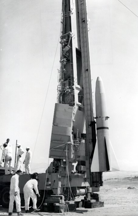 Set up for ground launch of Satellite Interceptor Program (SIP) test vehicle, August 1961; a follow-on to China Lake's "NOTSNIK" air-launched satellite and Caleb space-probe projects, SIP was a prototype air-launched satellite-killer system using primarily in-house technology and hardware.